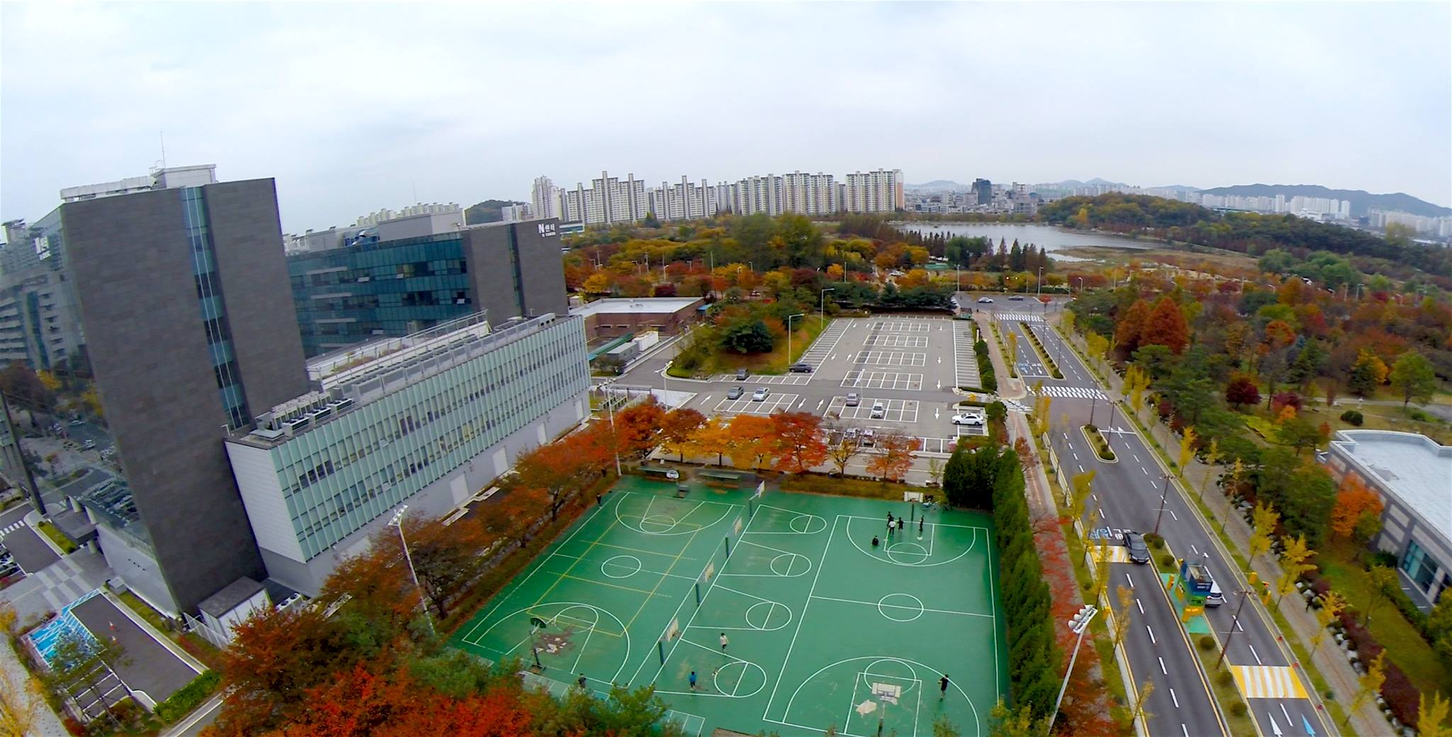 Basket ball field